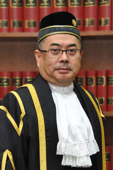 Wan Ahmad Farid Wan Salleh, ex politician